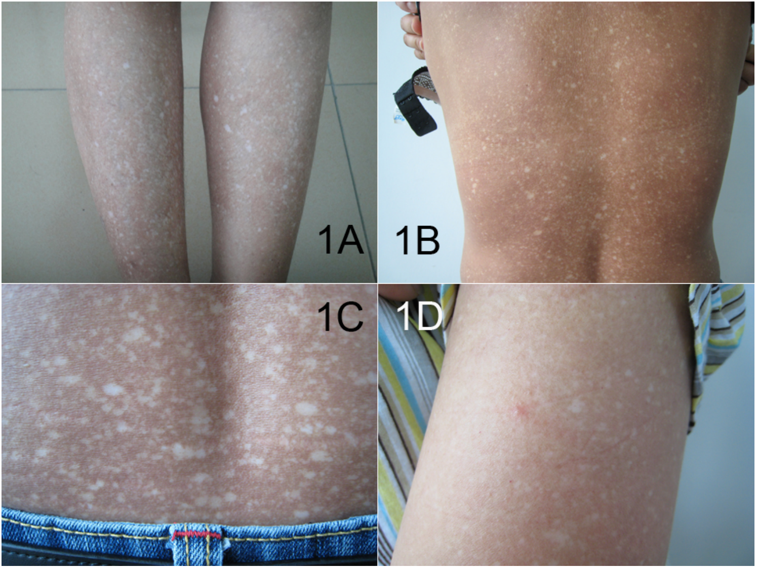 The clinical features of ACD. The hyperpigmented and hypopigmented macules on (A) lower legs, (B) back and waist, (C) waist. (D) Individual blisters on upper arm.